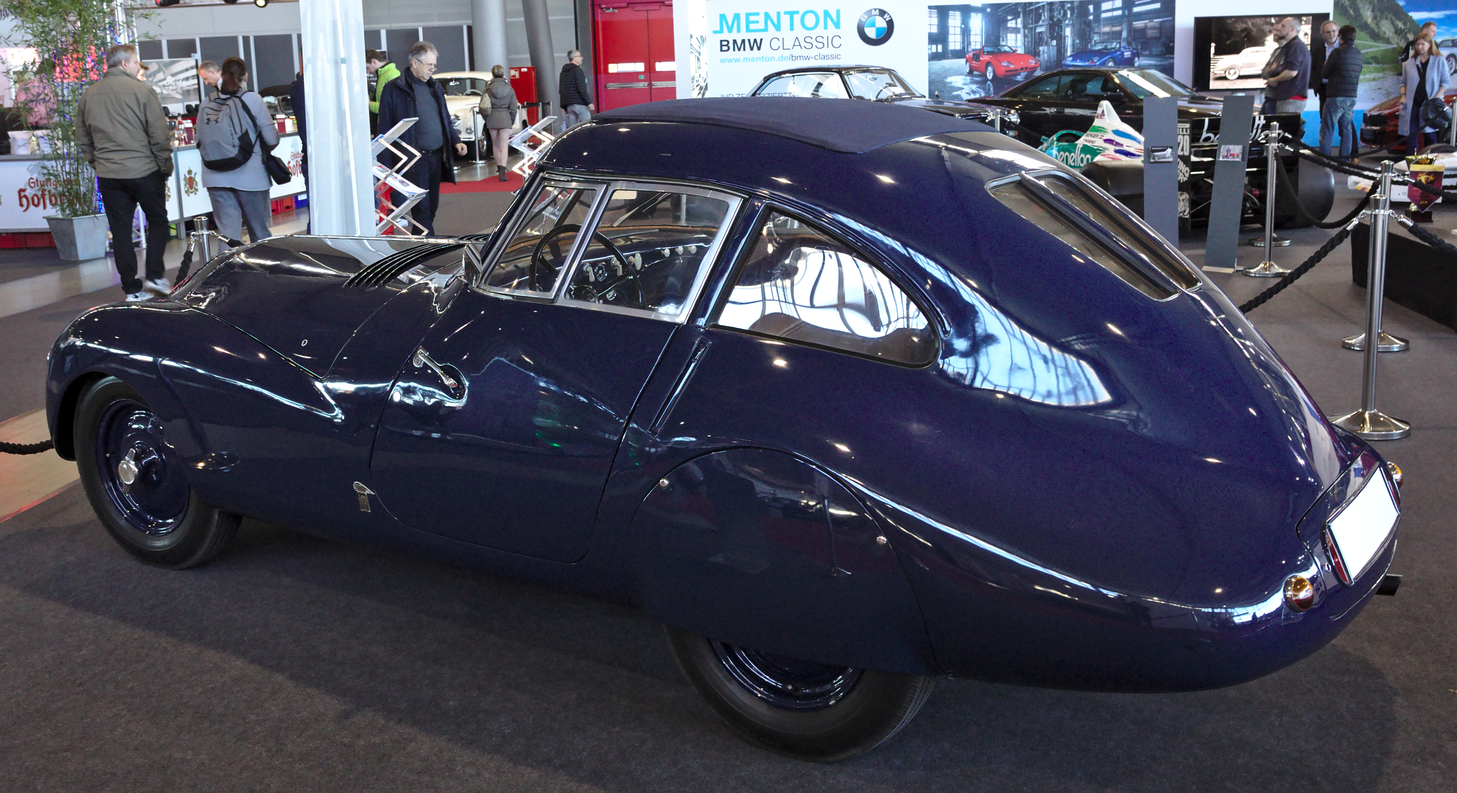 BMW 328 'Fachsenfeld' Coupe at Retro Classics 2019